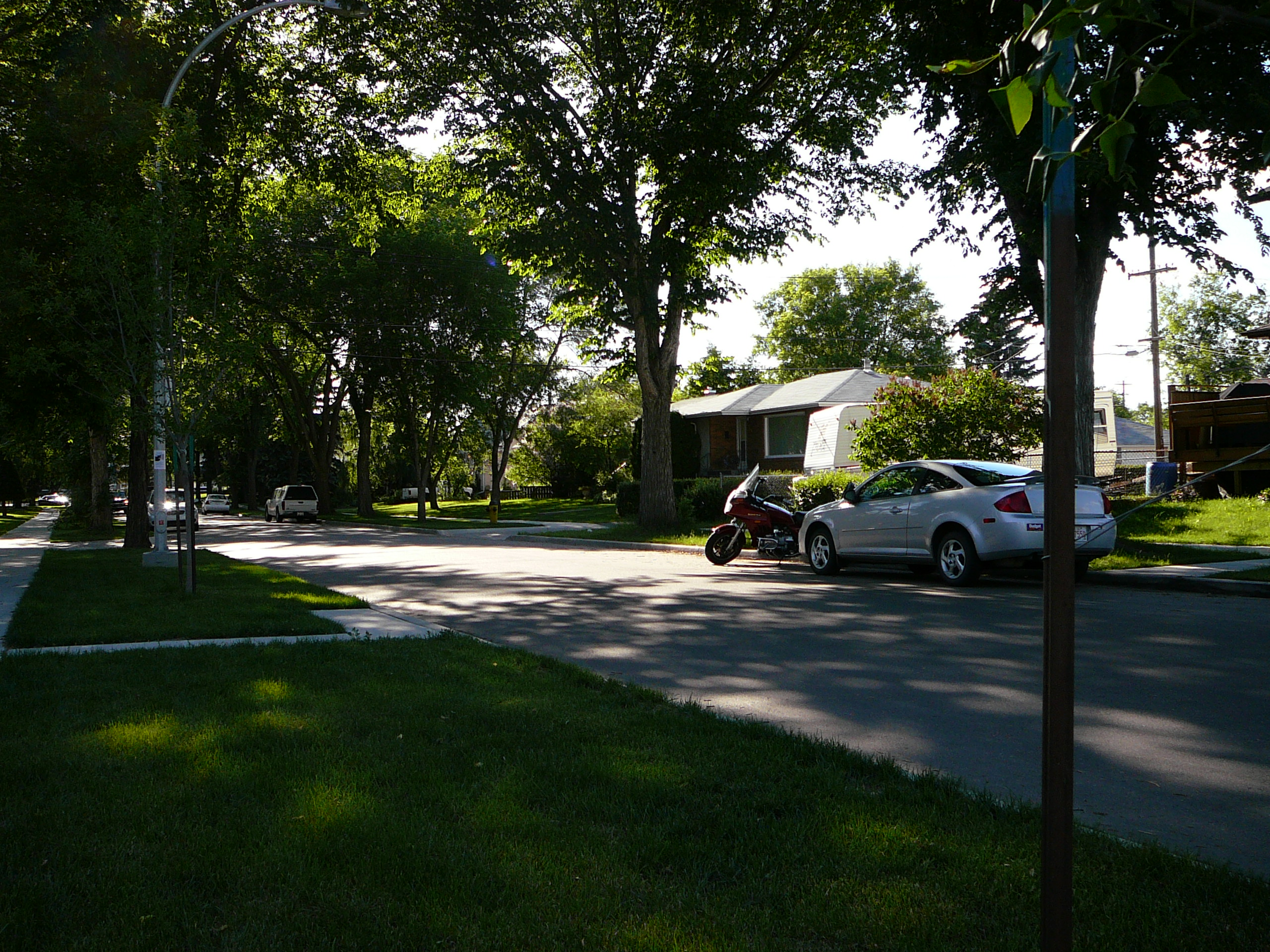 Residential street in the Edmonton neighbourhood of Idylwild.